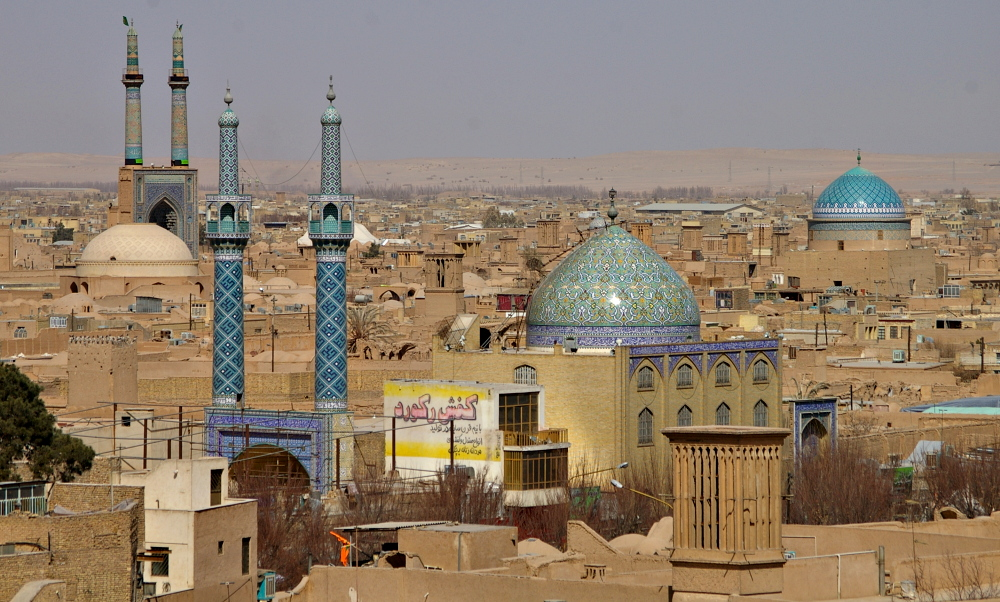 Yazd, panorama of the city from Amir Chakmagh complex